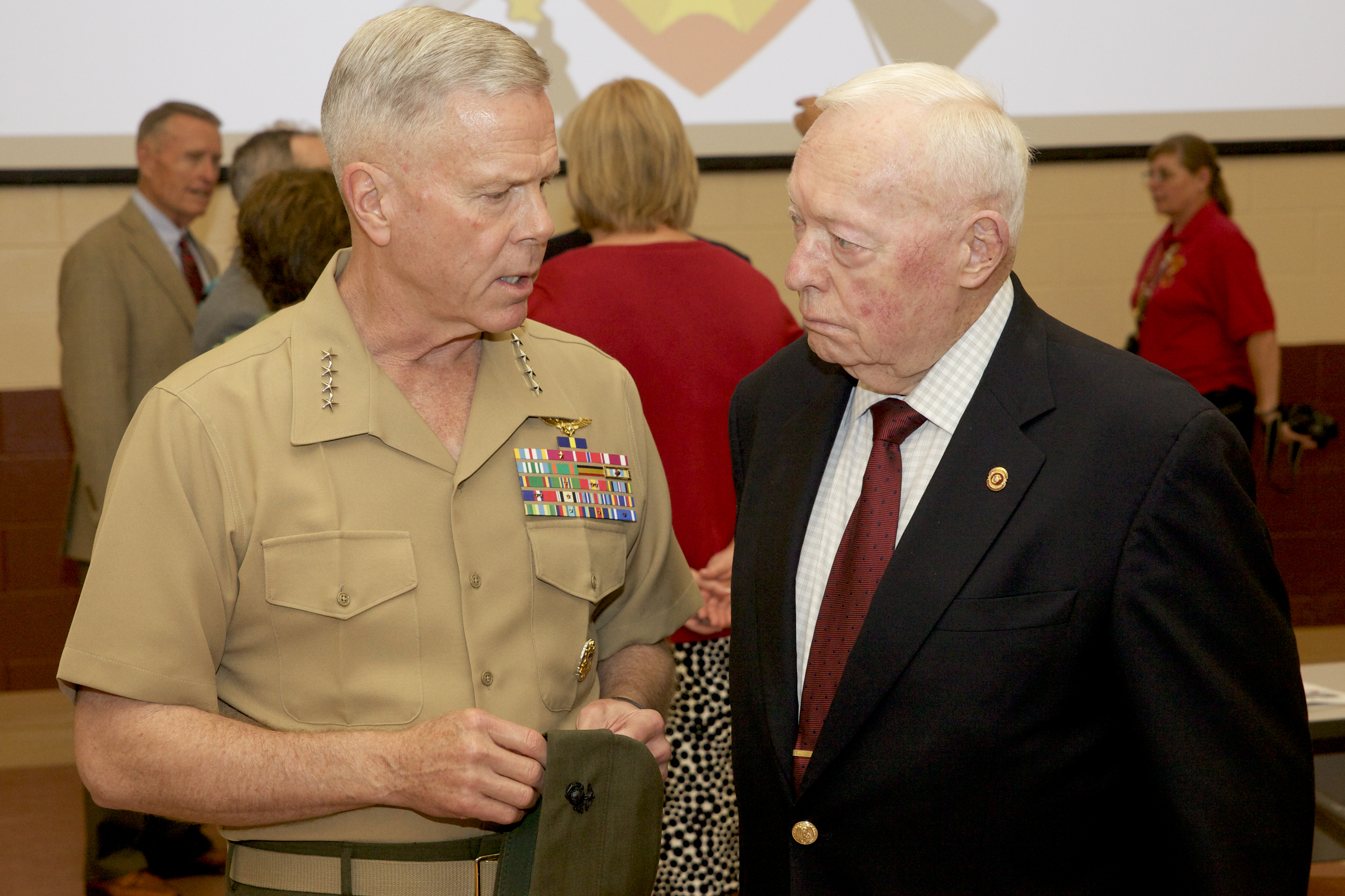 U.S. Marine Corps Gen. James F. Amos, left, the 35th commandant of the Marine Corps, speaks with retired Gen. Alford A. Gray, the 29th commandant, during a rededication ceremony for Heywood Hall at Marine Corps Base Quantico, Quantico, Va., June 1, 2012. The facility, located at The Basic School, was named for Maj. Gen. Charles Heywood, the ninth commandant of the Marine Corps. (U.S. Marine Corps photo by Sgt. Mallory S. VanderSchans/Released)